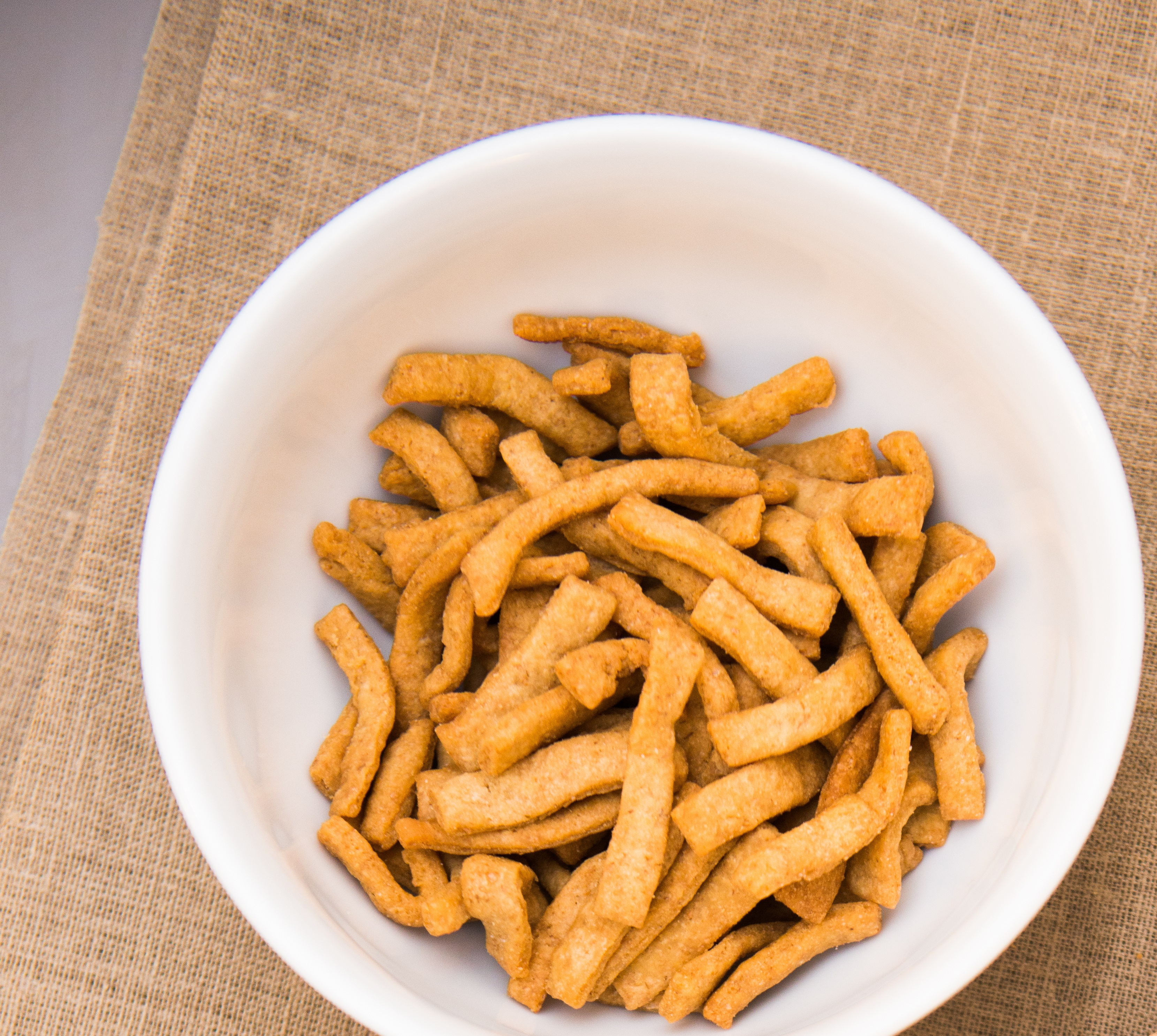 Love Chin Chin photo